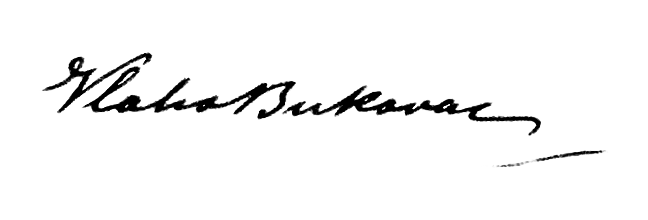 Vlaho Bukovac signature